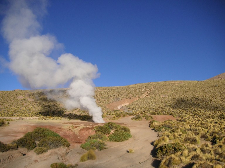 Geyser del Tatio, Atacama Desert, Chile